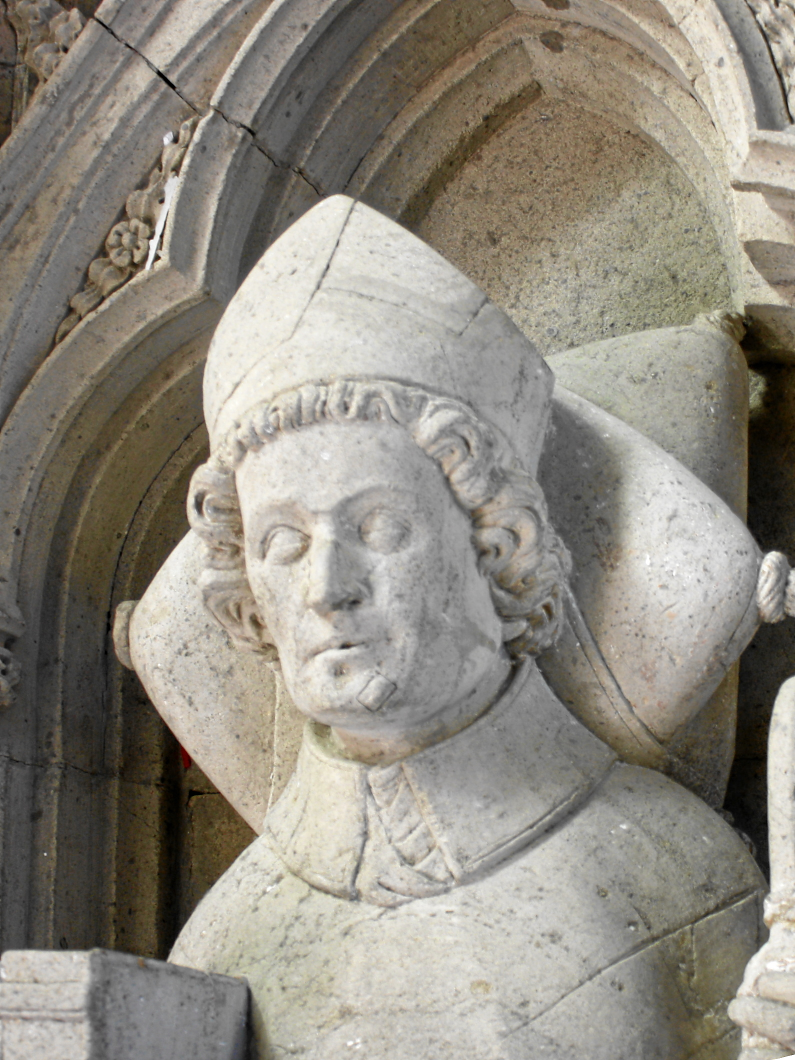 "Bergischer Dom" in Odenthal-Altenberg, Germany. Grave of Bruno III. of Berg, Archbishop from Cologne.